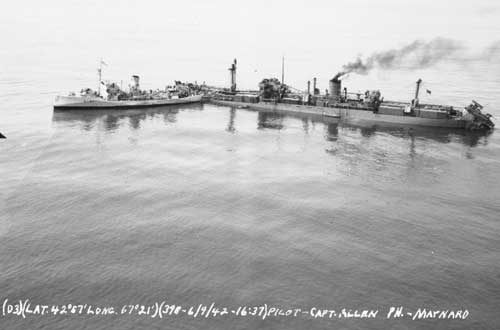 Photograph of MV Kronprinsen following the attack by U-432. The other ship in the picture is HMS Summerside